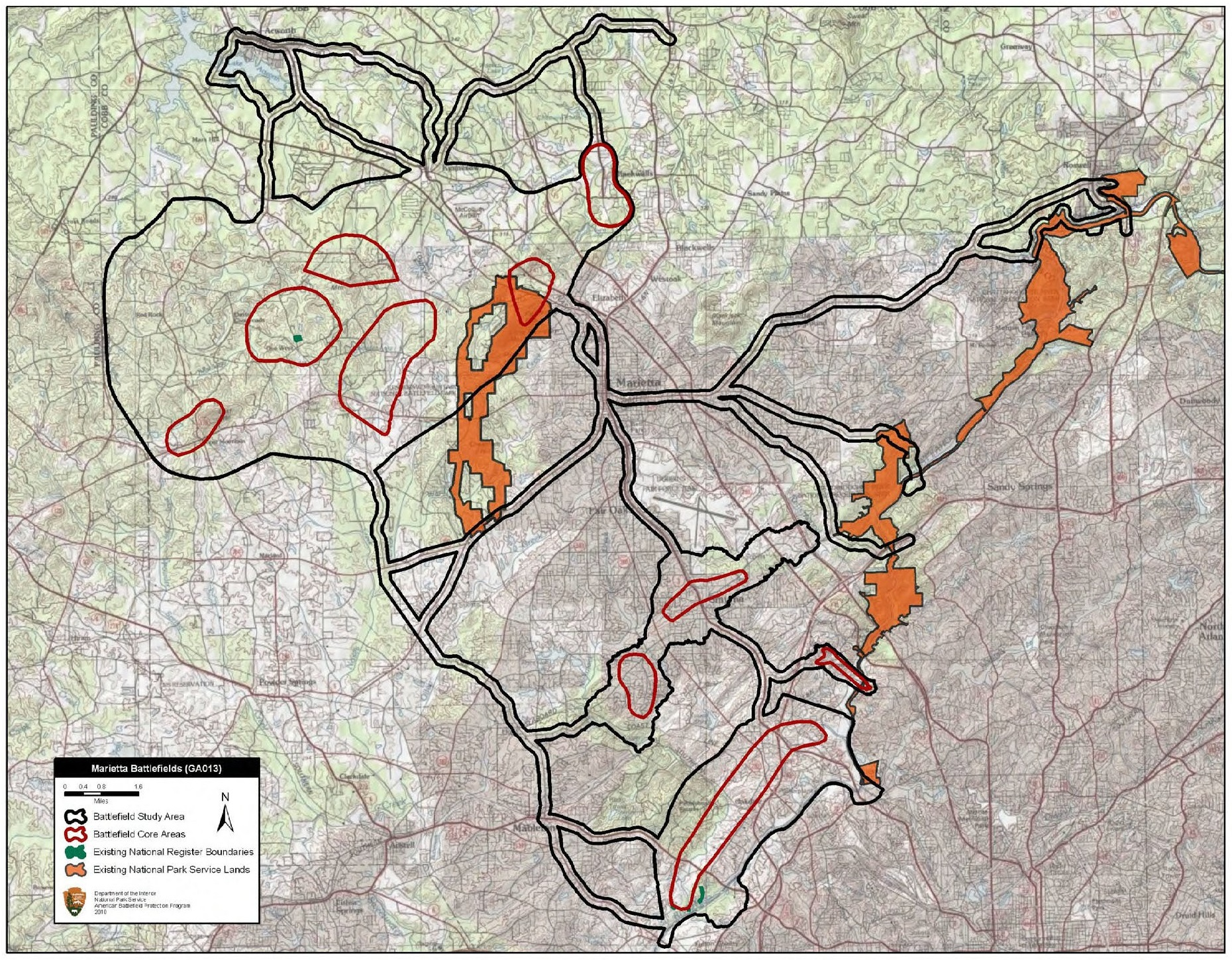 Map of battlefield core and study areas. The Marietta Operations include the engagements at Brushy Mountain, Gilgal Church, Johnston River Line, Lost Mountain, Mud Creek Line, Noonday Creek, Pine Knob, Pine Mountain, Ruff's Mill, Smyrna, and Vining.